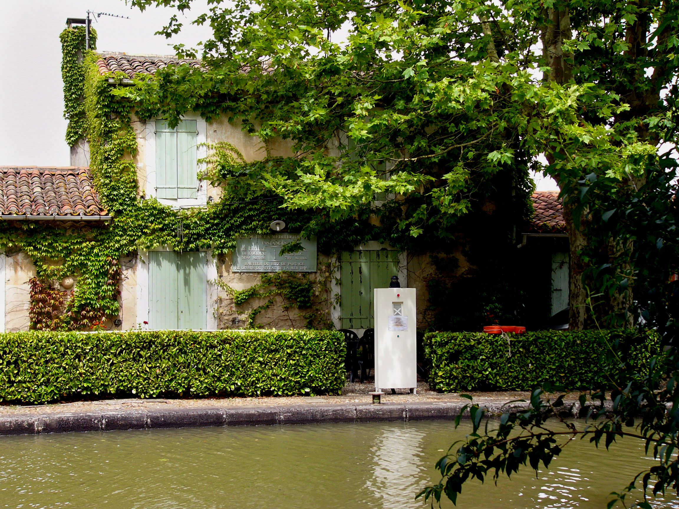 Lock house at Méditerranée Lock on the Canal du Midi